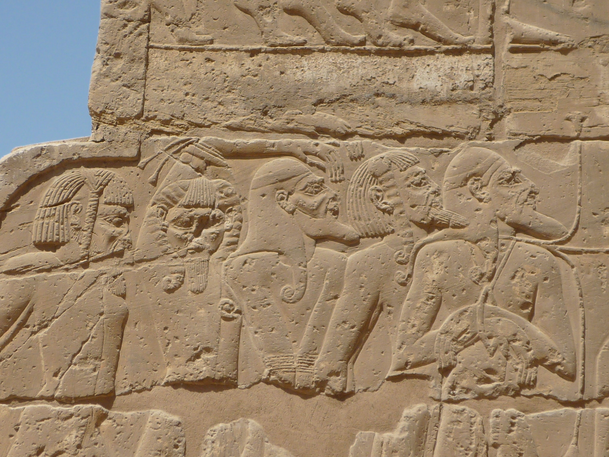 Wall relief of captives in migdol, migdol of Medinet Habu, Theban Necropolis, Egypt